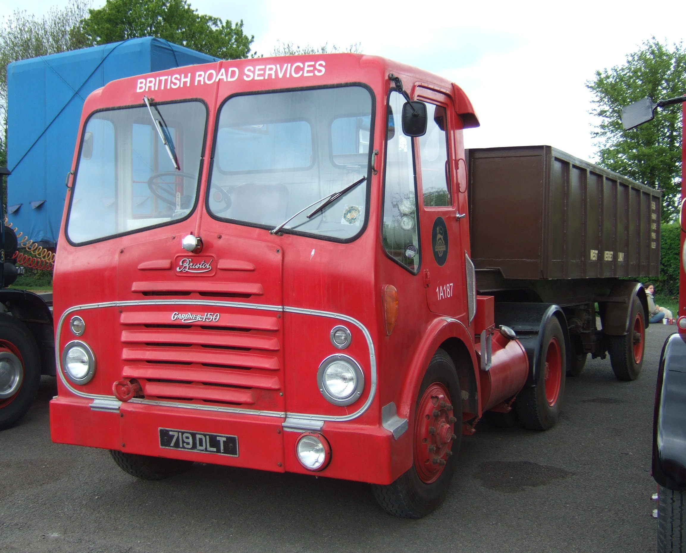 BRS-liveried Bristol HA tractor unit, with Gardner diesel engine. Castle Combe steam rally, 2010.